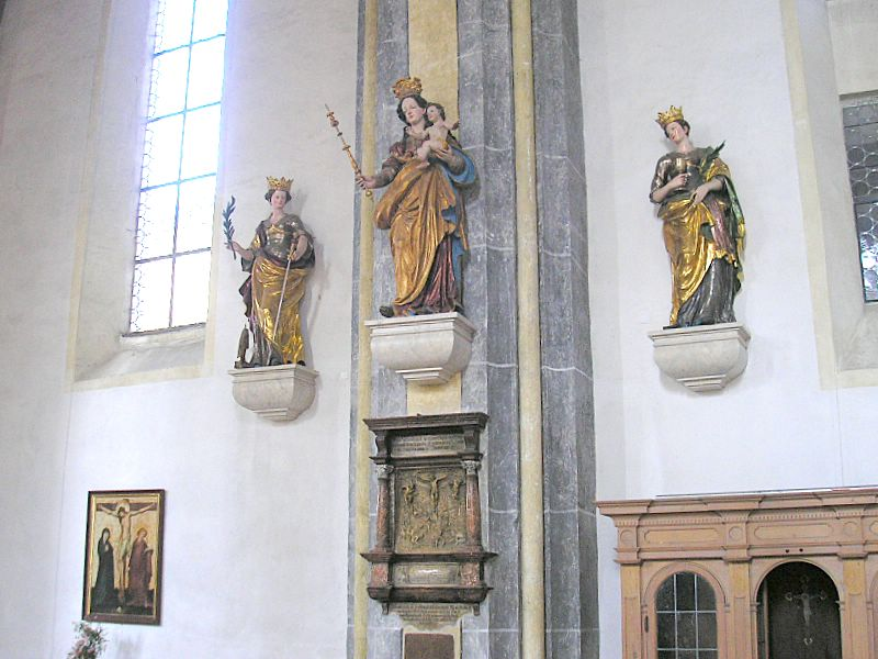 Parish and collegiate church of Our Lady (Laufen an der Salzach, Landkreis Berchtesgadener Land, Upper Bavaria, Germany). Sculptures of the old high altar (Jakob Gerold, Salzburg, ca. 1655)